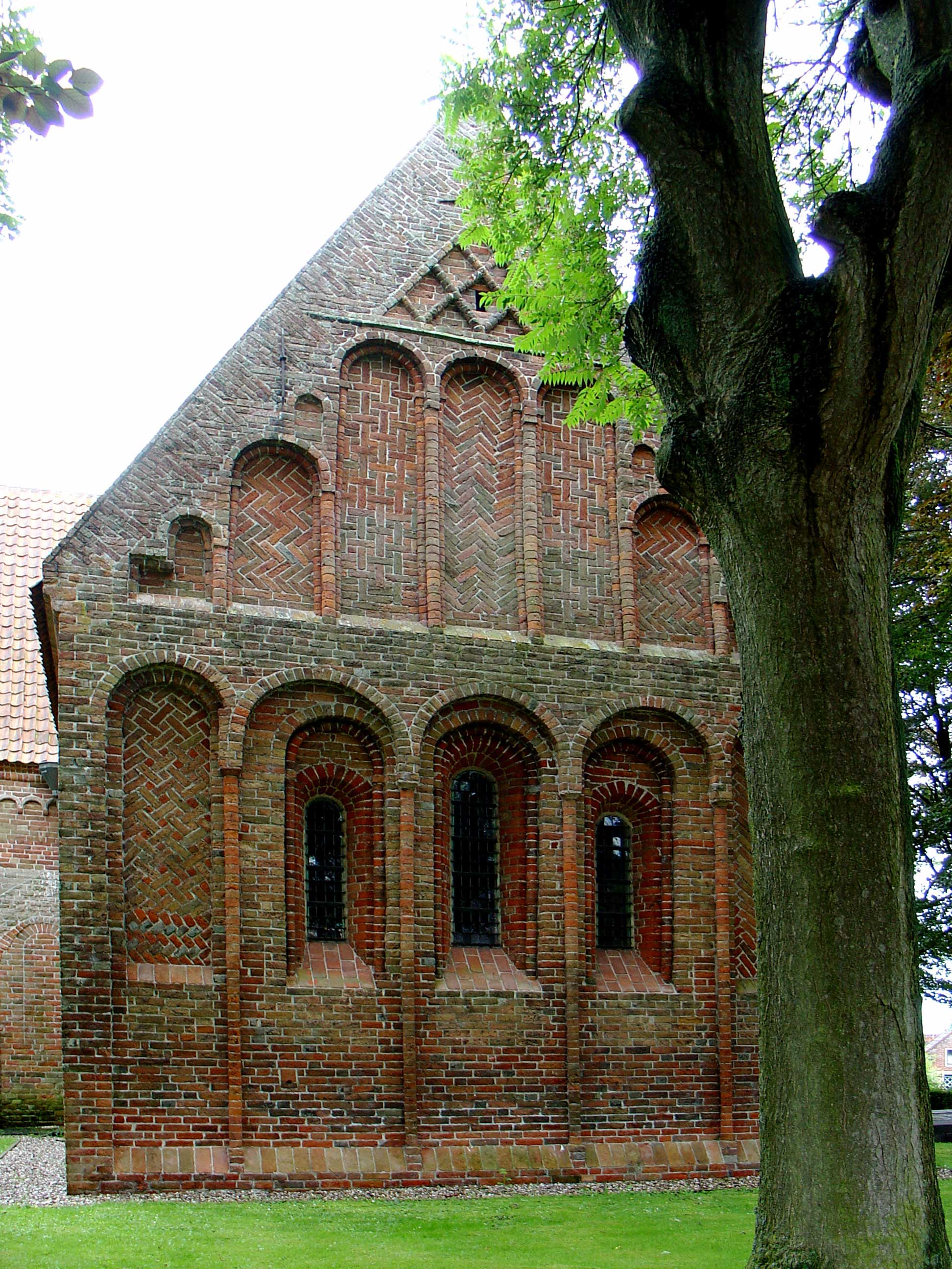 Church of Leermens, Netherlands, C11 or C12 français: Pays-Bas, église de Leermens qui date des XIe ou XIIe siècle.